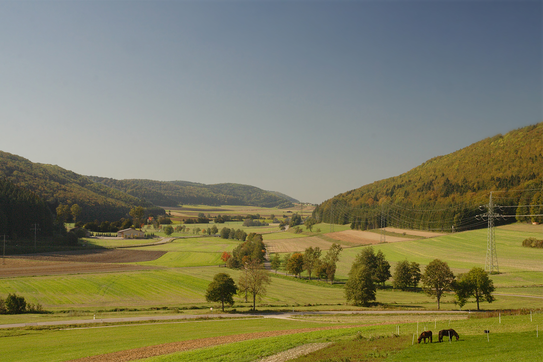 Valley of the northern end of the Danube tributary Lauchert, as seen from "Stetten unter Holstein", where the tributary "Erpf" flows into the Lauchert from the right, Swabian Alb.Extremely strong headward erosion of the Rhine tributary "Steinlach" created a wind gap at the "Albtrauf" (cuesta of the Swabian Alb, far end of image, not visible). The former upper Lauchert, once a huge river (Urlauchert), was totally stripped off by the "Steinlach". The Lauchert is nowadays a misfit stream. Also, reletively strong denudation of the visible terrain and the terrain W of the elevation widened the valley even more.